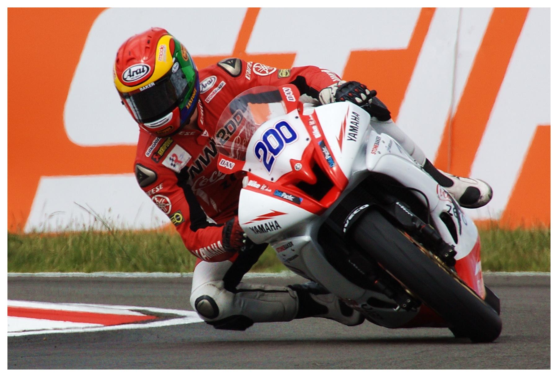 Dan Linfoot ~ North West 200 Yamaha (British Supersport)